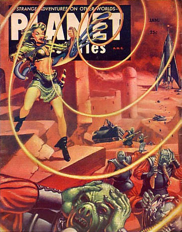 Planet Stories cover, 1930s, with cliche elements